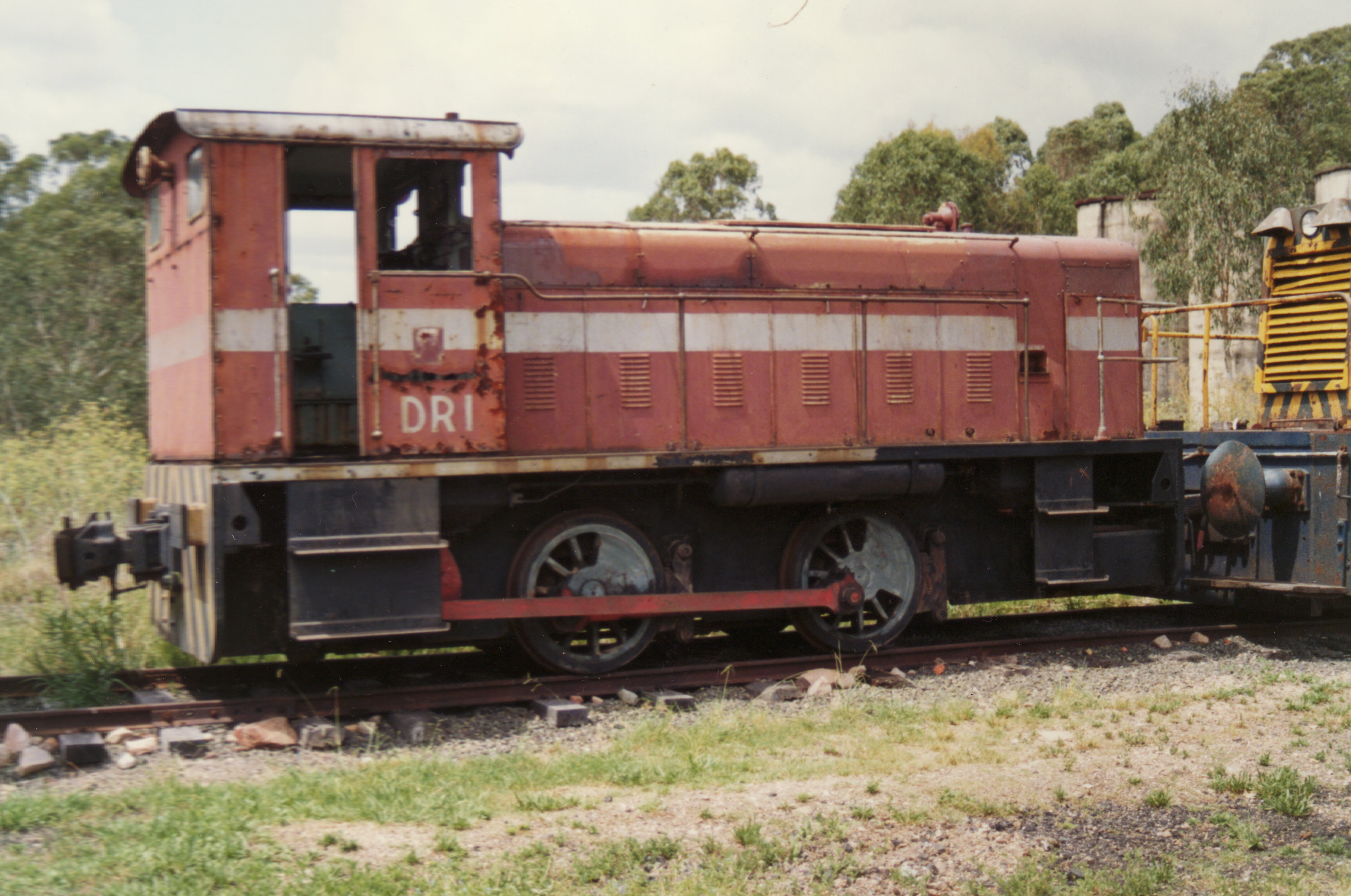 DR1 at Richmond Main 1990